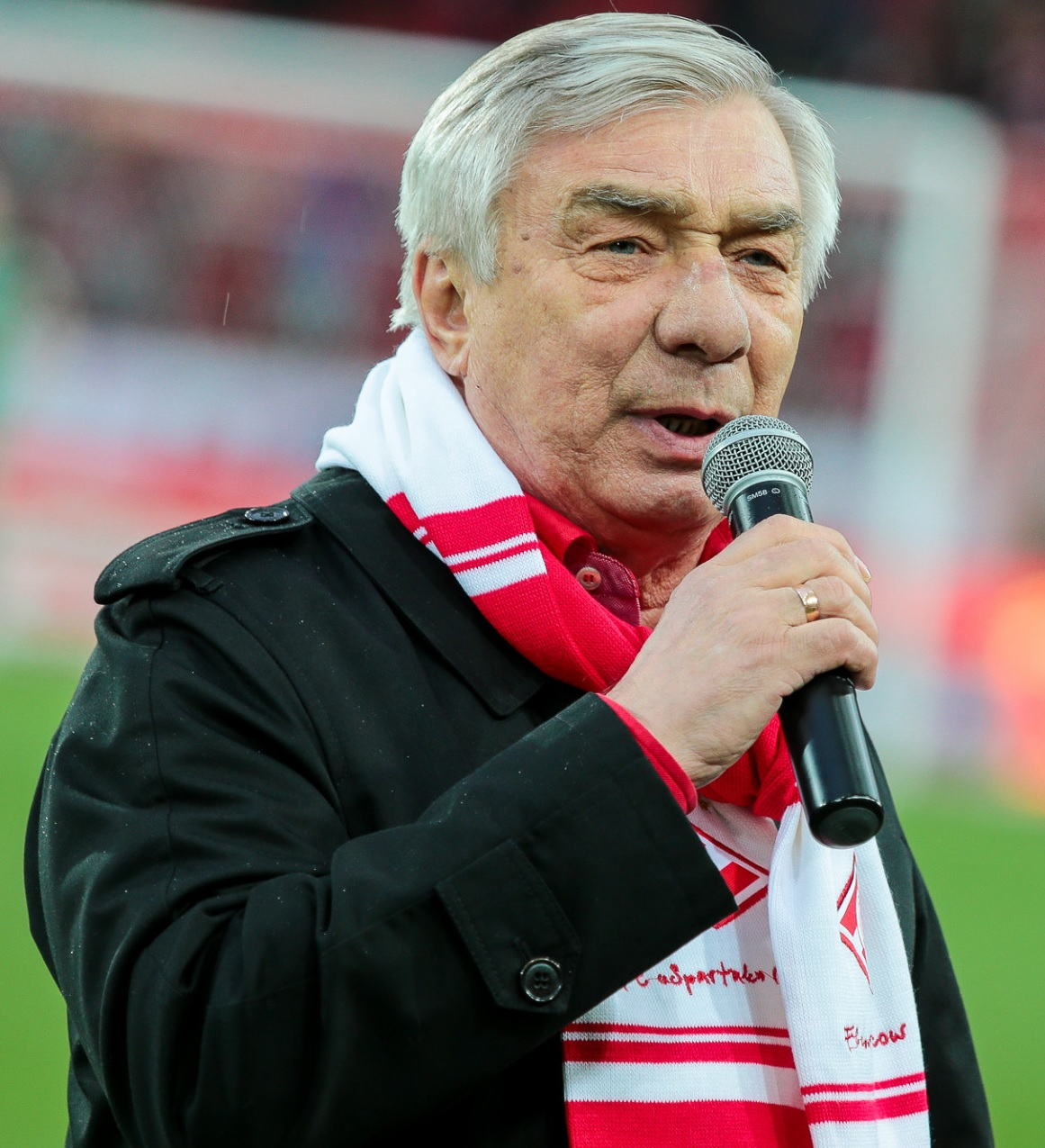 Georgi Yartsev before the Russian Cup semifinal game between FC Spartak Moscow and FC Tosno.